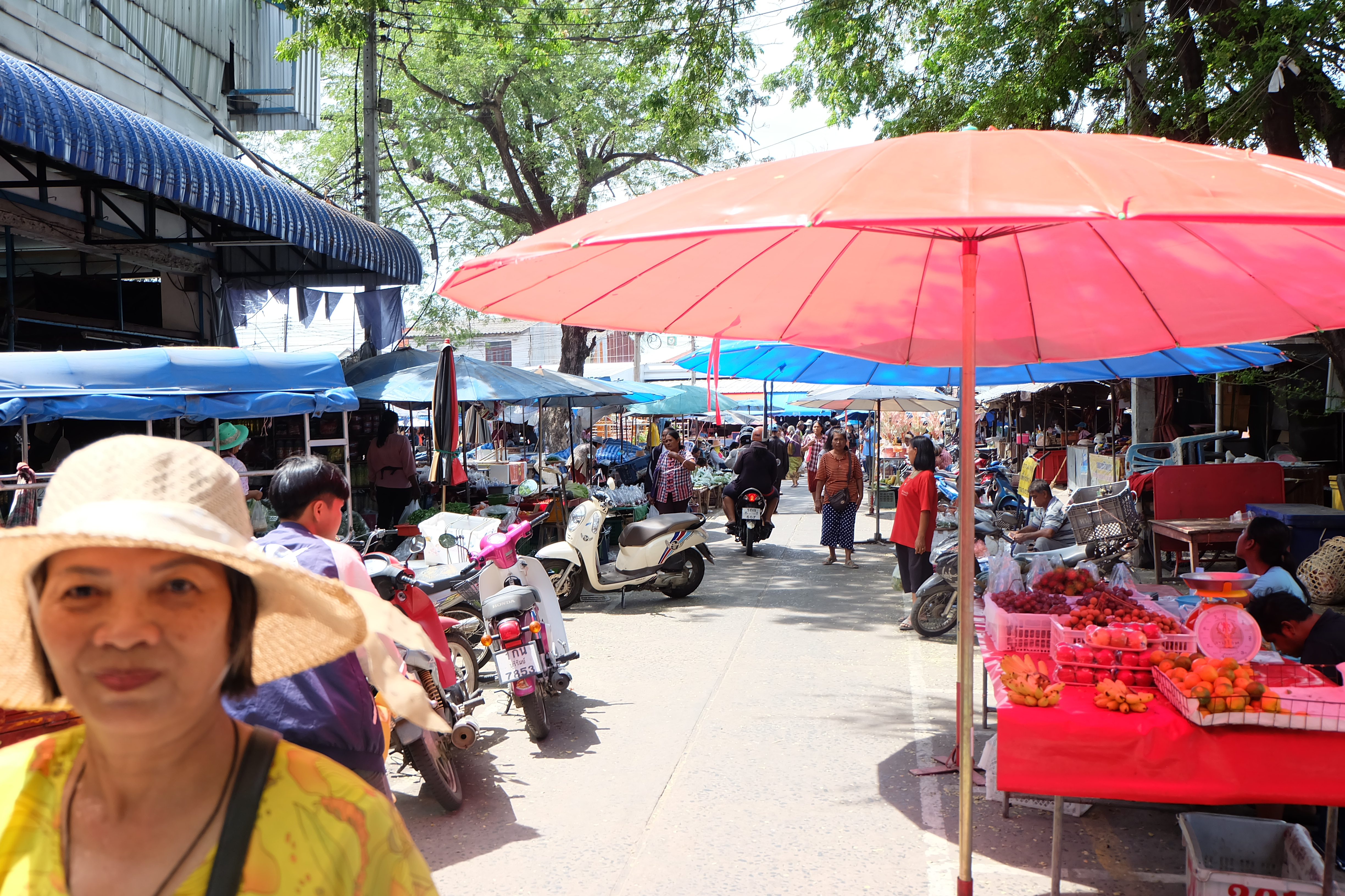 One immage of the rich food market of Satuek (Buriram-Thailand )